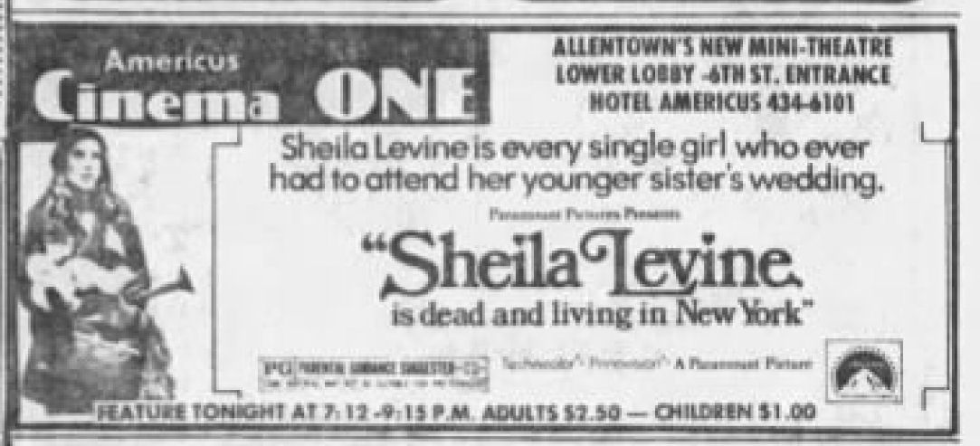 Americus Cinema One advertisement for the film Sheila Levine Is Dead and Living in New York (1975) - 10 Jun. 1975 Morning Call, Allentown, PA